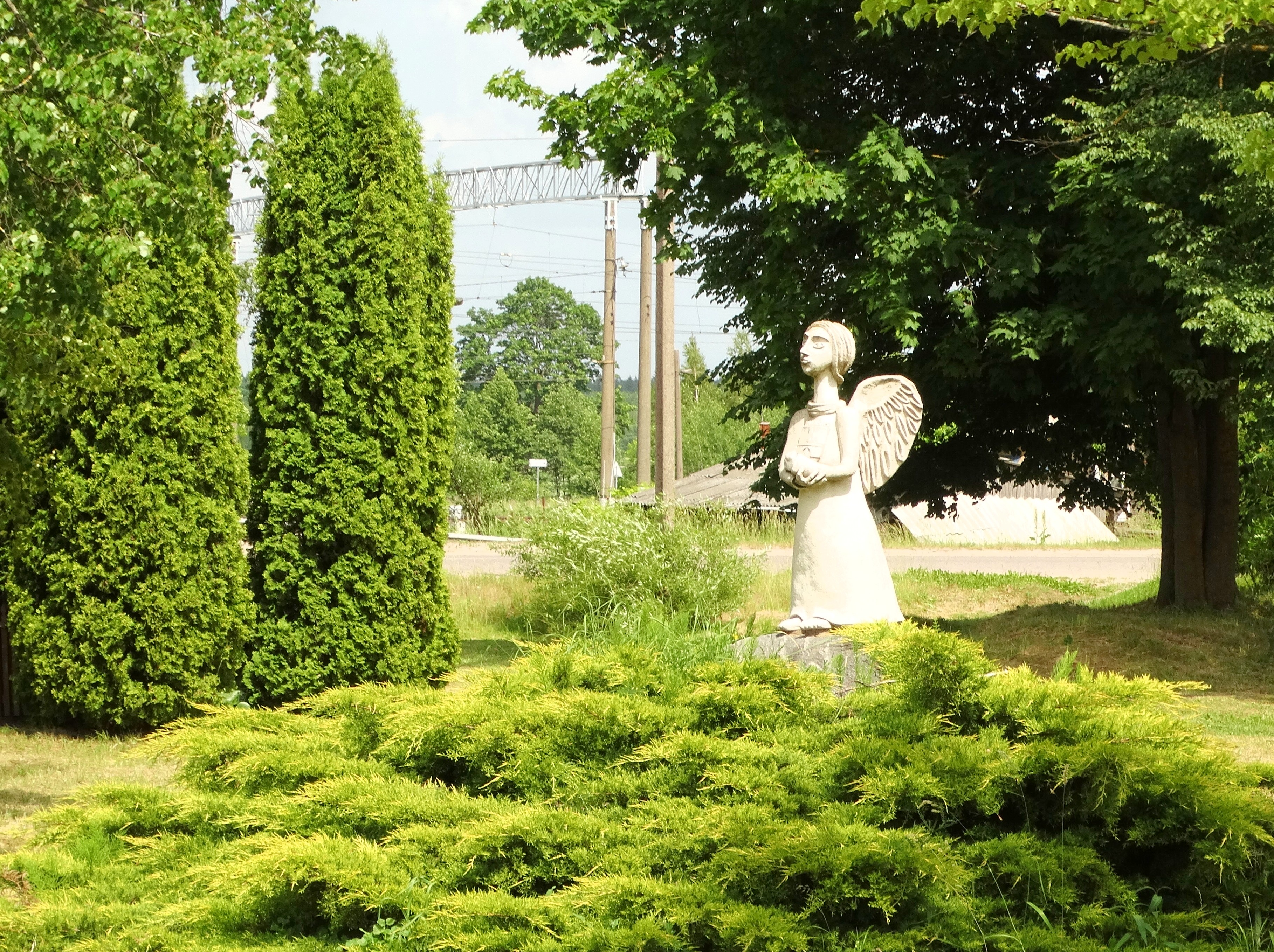 Pravieniškės, Kaišiadorys District, Lithuania